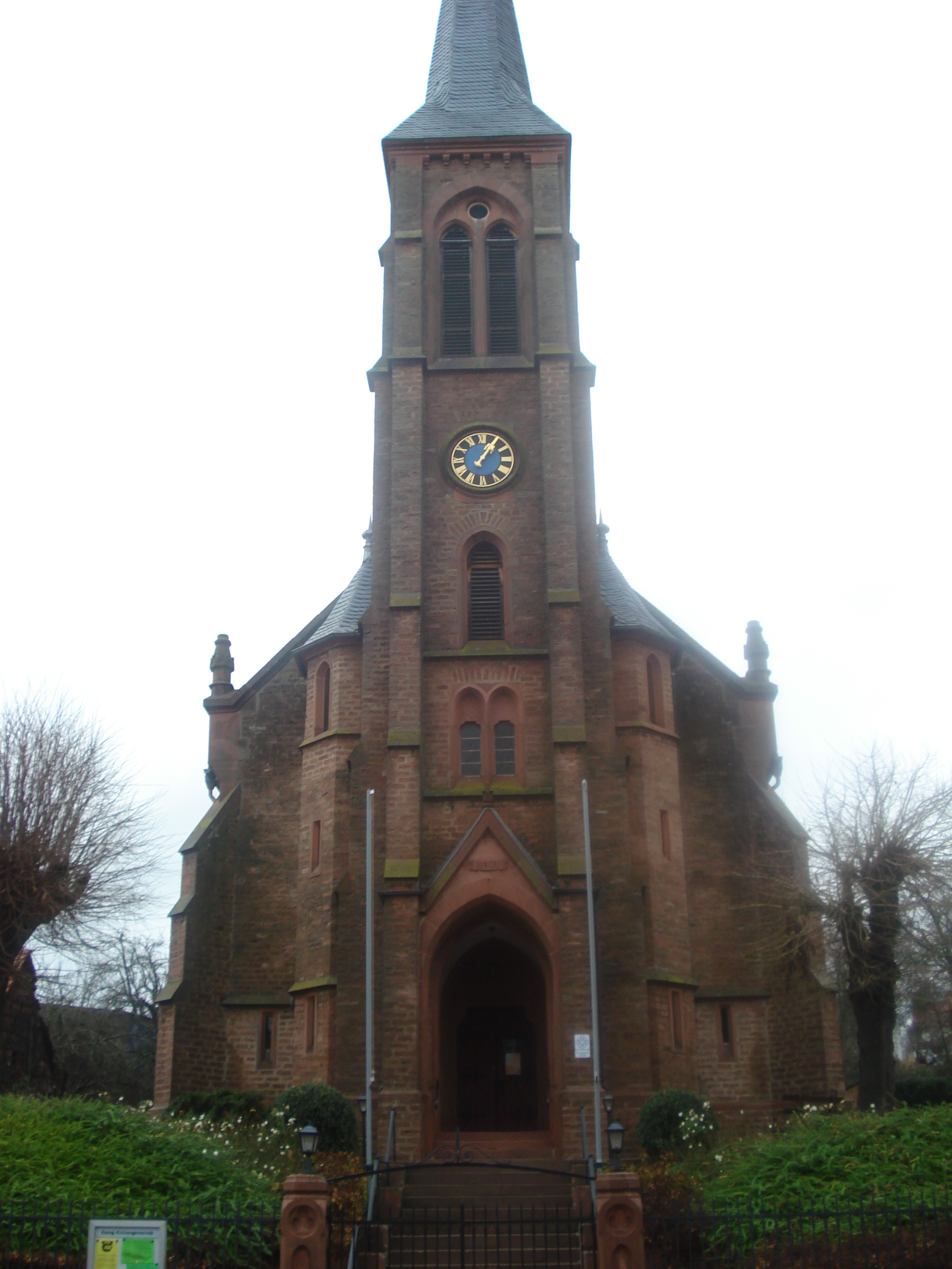 Photo of Zoztenbach Church